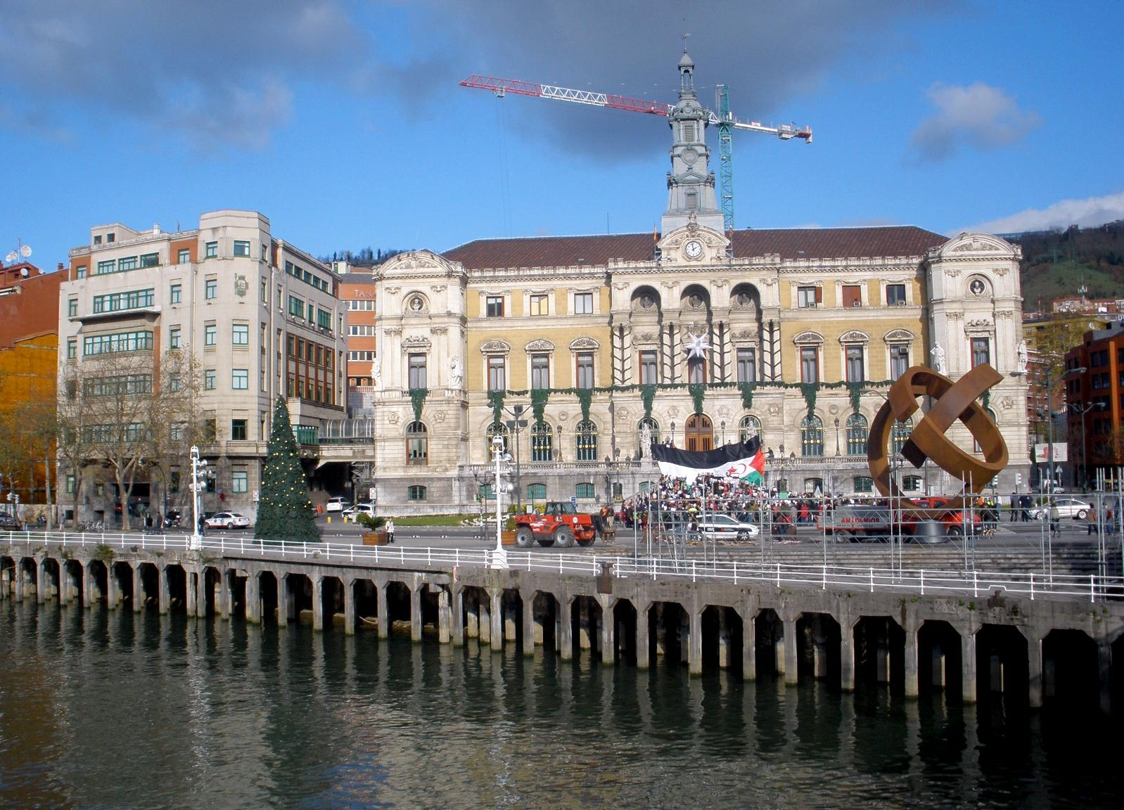 Ayuntamiento y ría de Bilbao